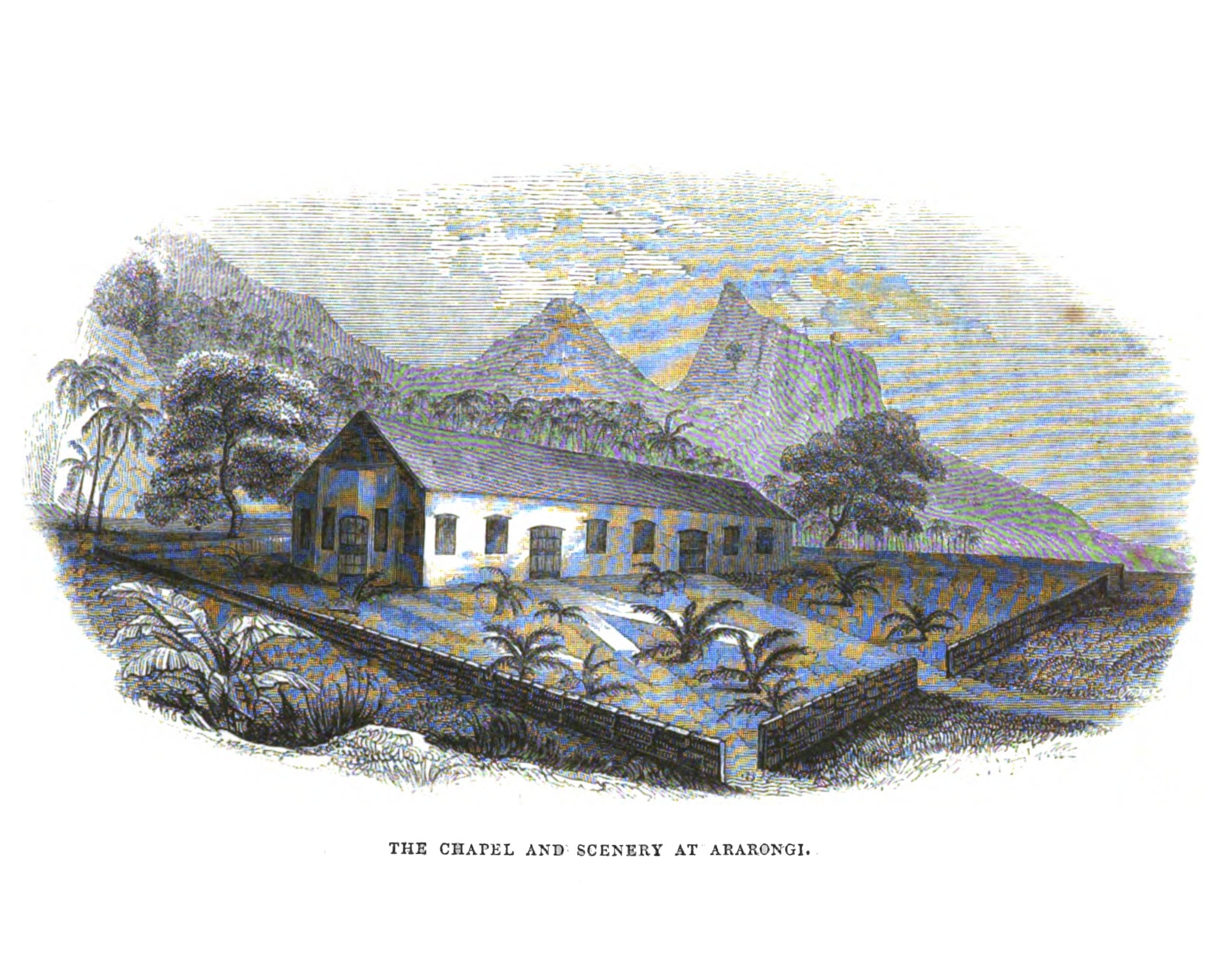 First chapel of Arorangi (Rarotonga Cook Islands)